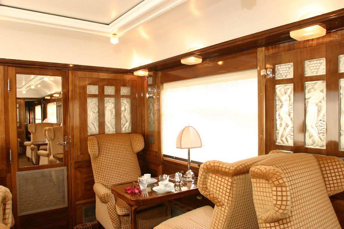 The 'secret' Orient Express formed of genuine heritage cars is based in Paris and is used exclusively by SNCF French railways for its supported charites and for its own corporate use. The Pullman Orient Express is an authentic train in the style of the genuine Orient Express. The decor, staff uniforms and cuisine are faithful to the original 1920s / 1930s trains.